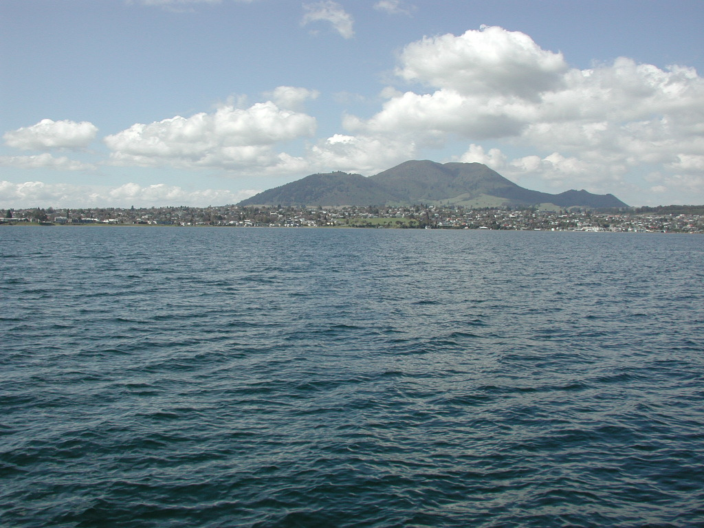 Mount Tauhara seen from Lake Taupo.